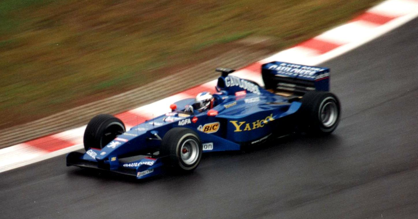 Jean Alesi (Prost) at the 2000 Belgian Grand Prix